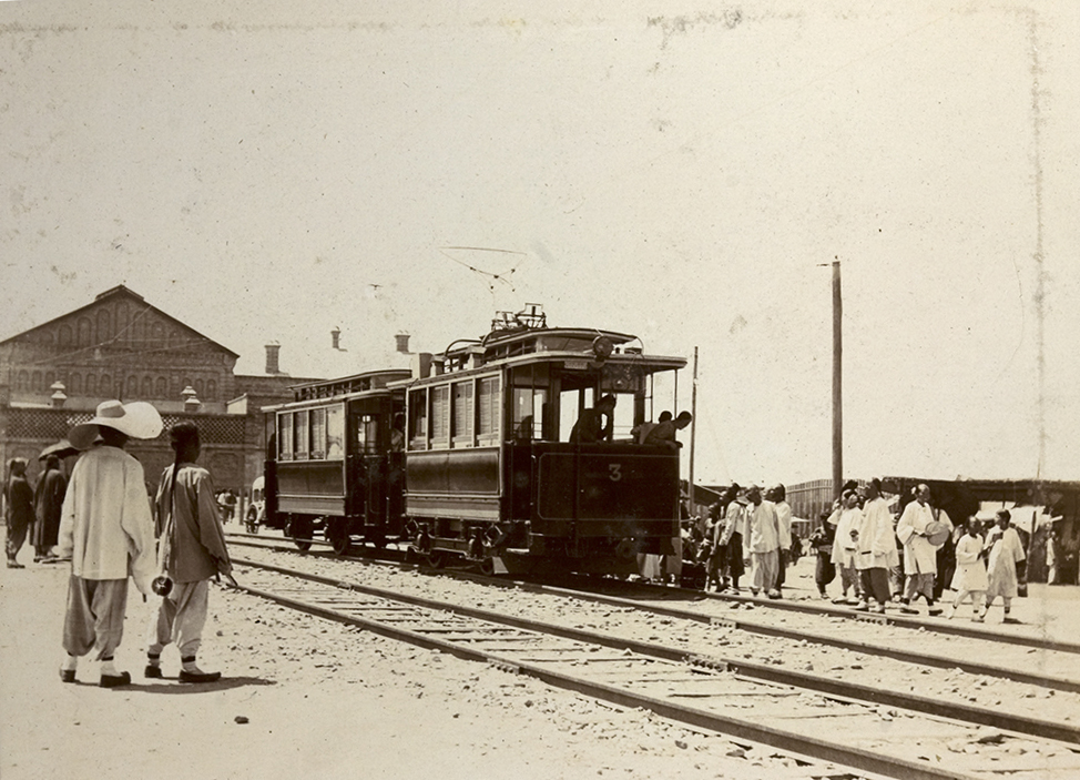 Tramway of Machiapu Station.